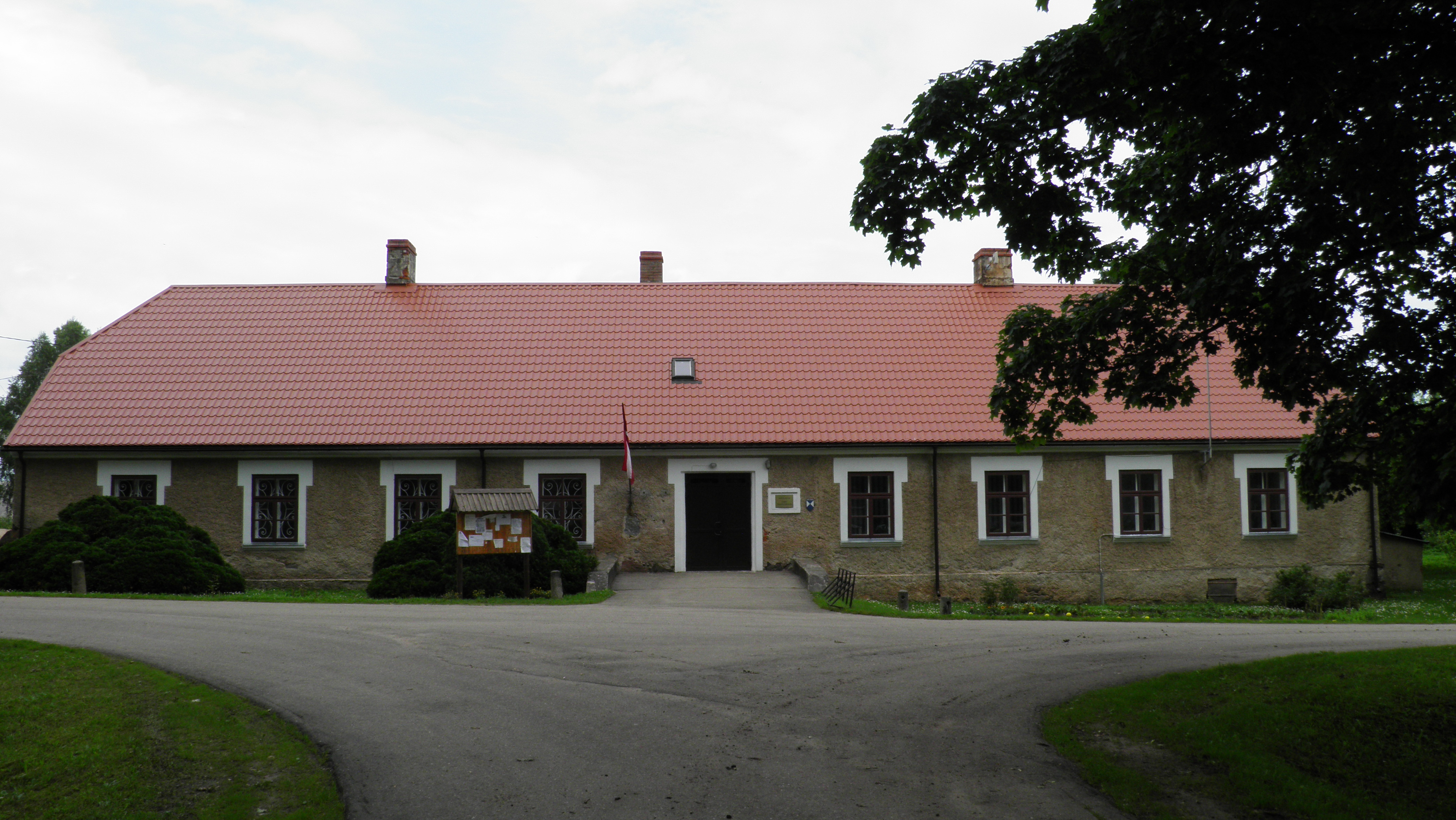 municipality